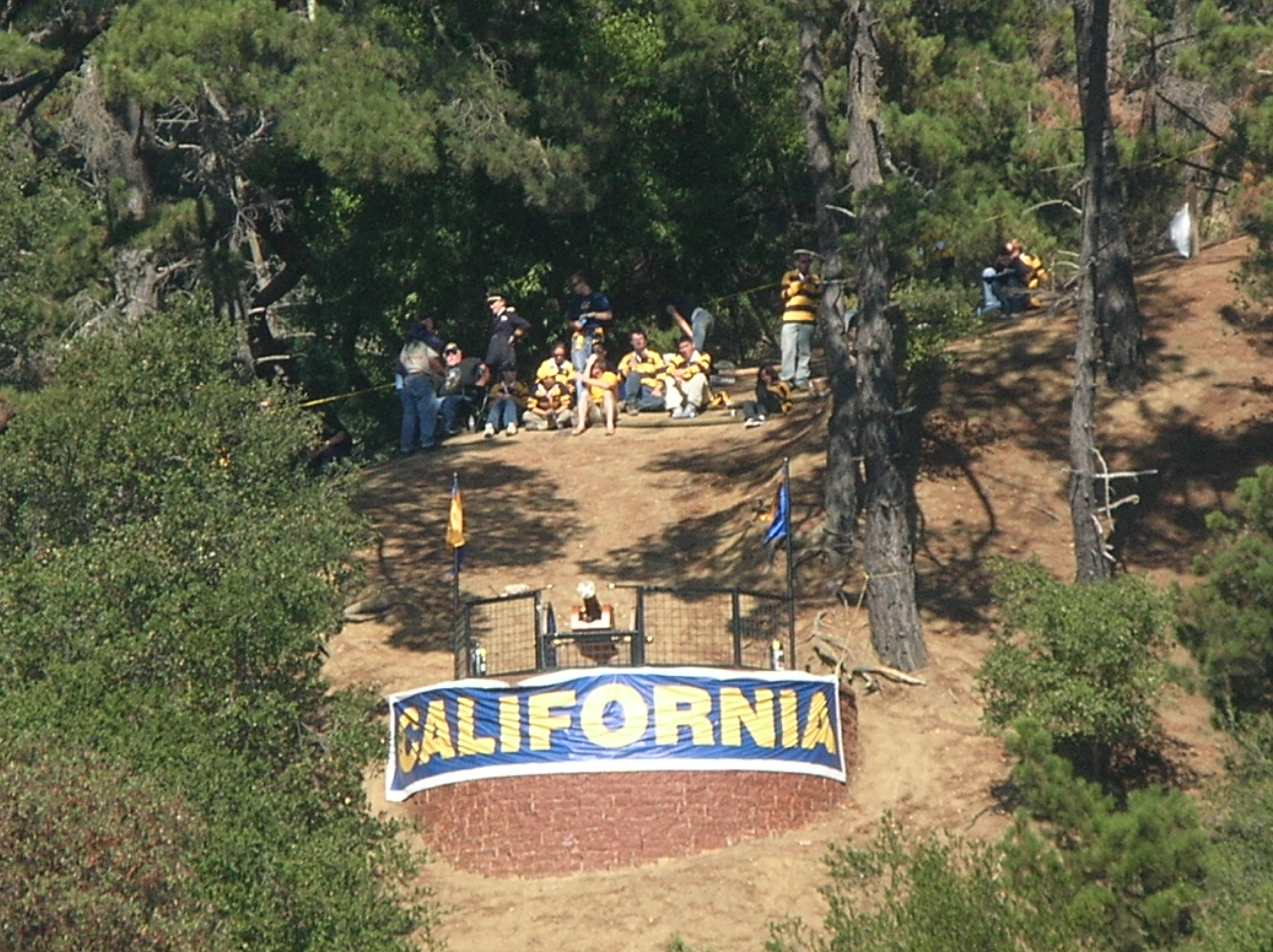 The California Victory Cannon during a Cal home game against the UCLA Bruins. The Golden Bears won 41-20.